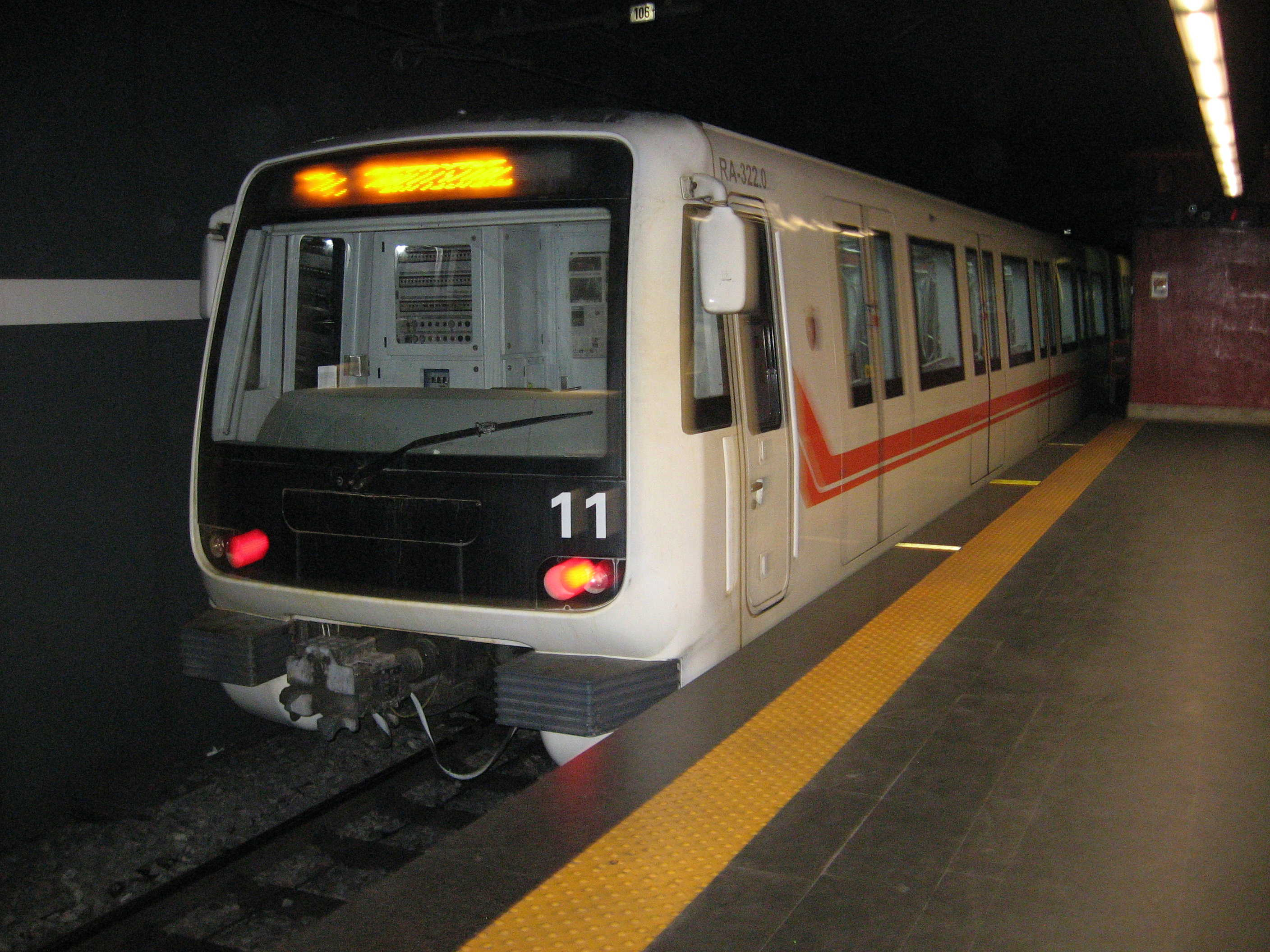 Train S/300 (RA 3220), produced by CAF, Metropolitana di Roma Linea A.